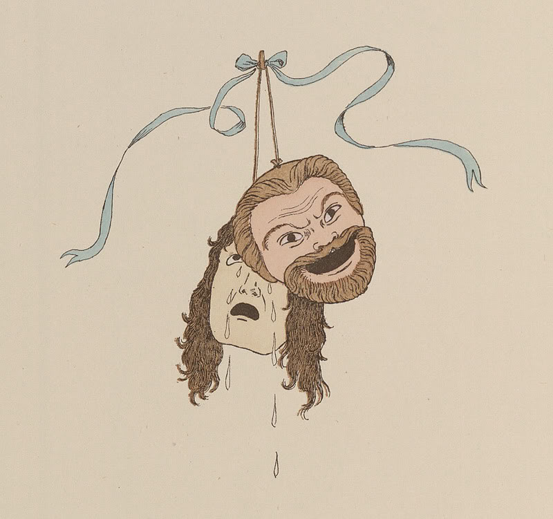 Picture of Maurice Boutet De Montvel representing Two masks cropped. 1888.